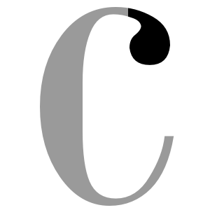 Illustration of a ball terminal using the Bodoni font family.